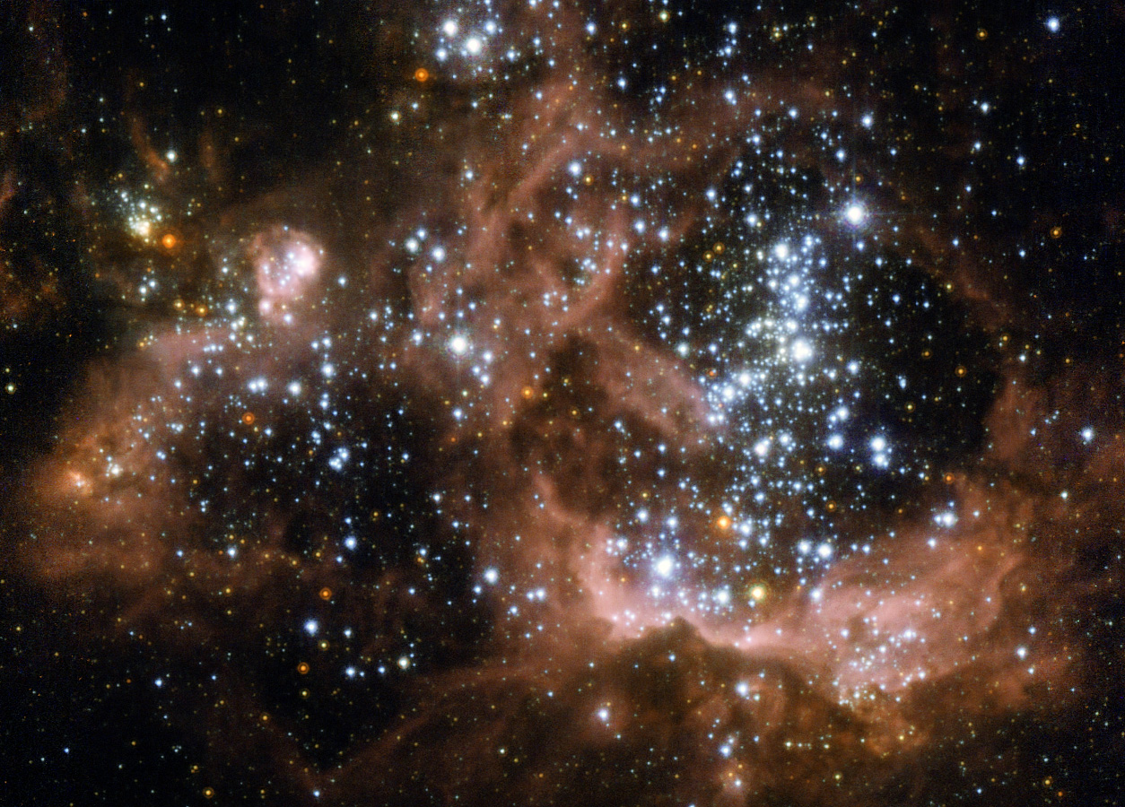 Sharpest view of NGC 604 so far obtained.